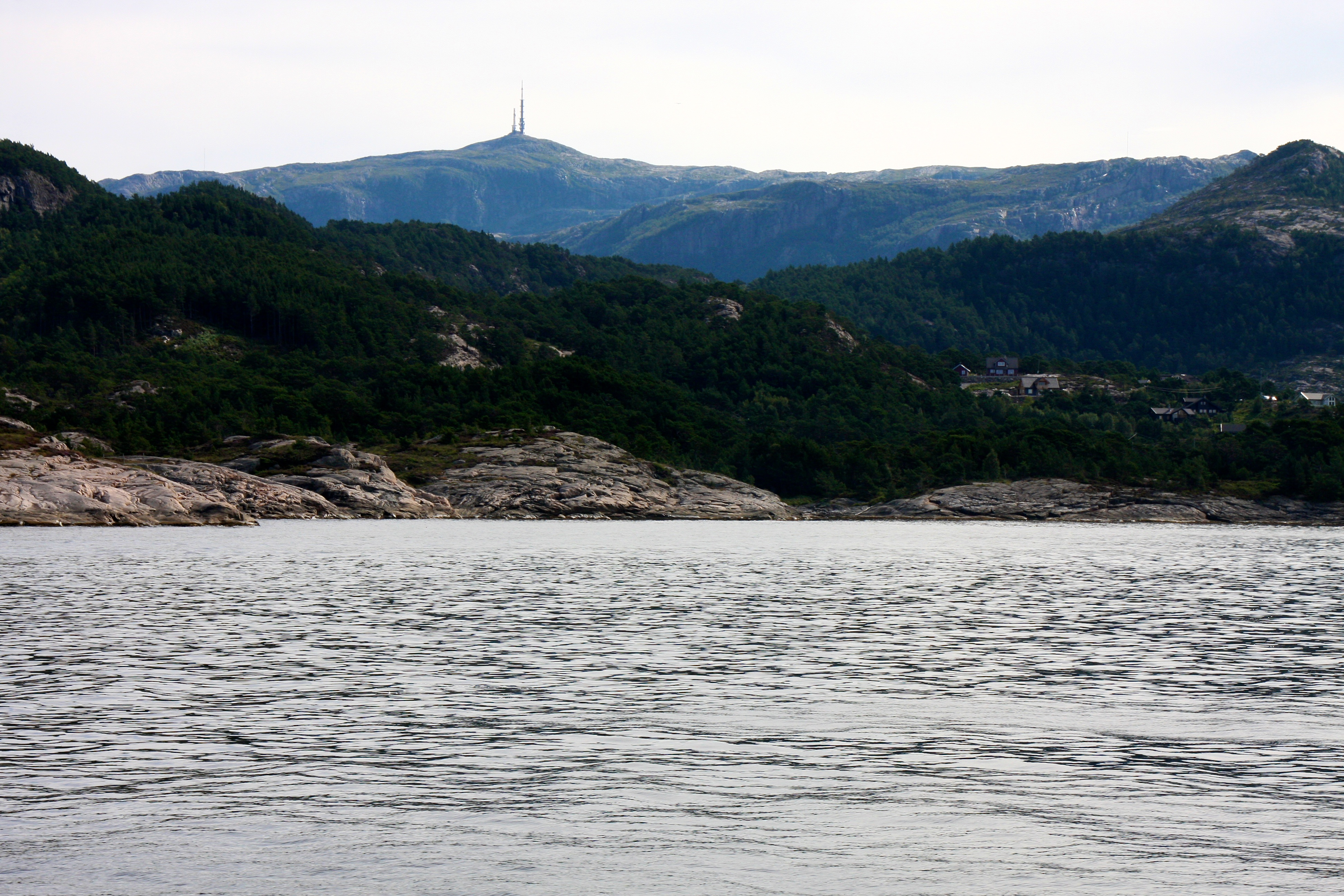 Gulen municipality, Norway.